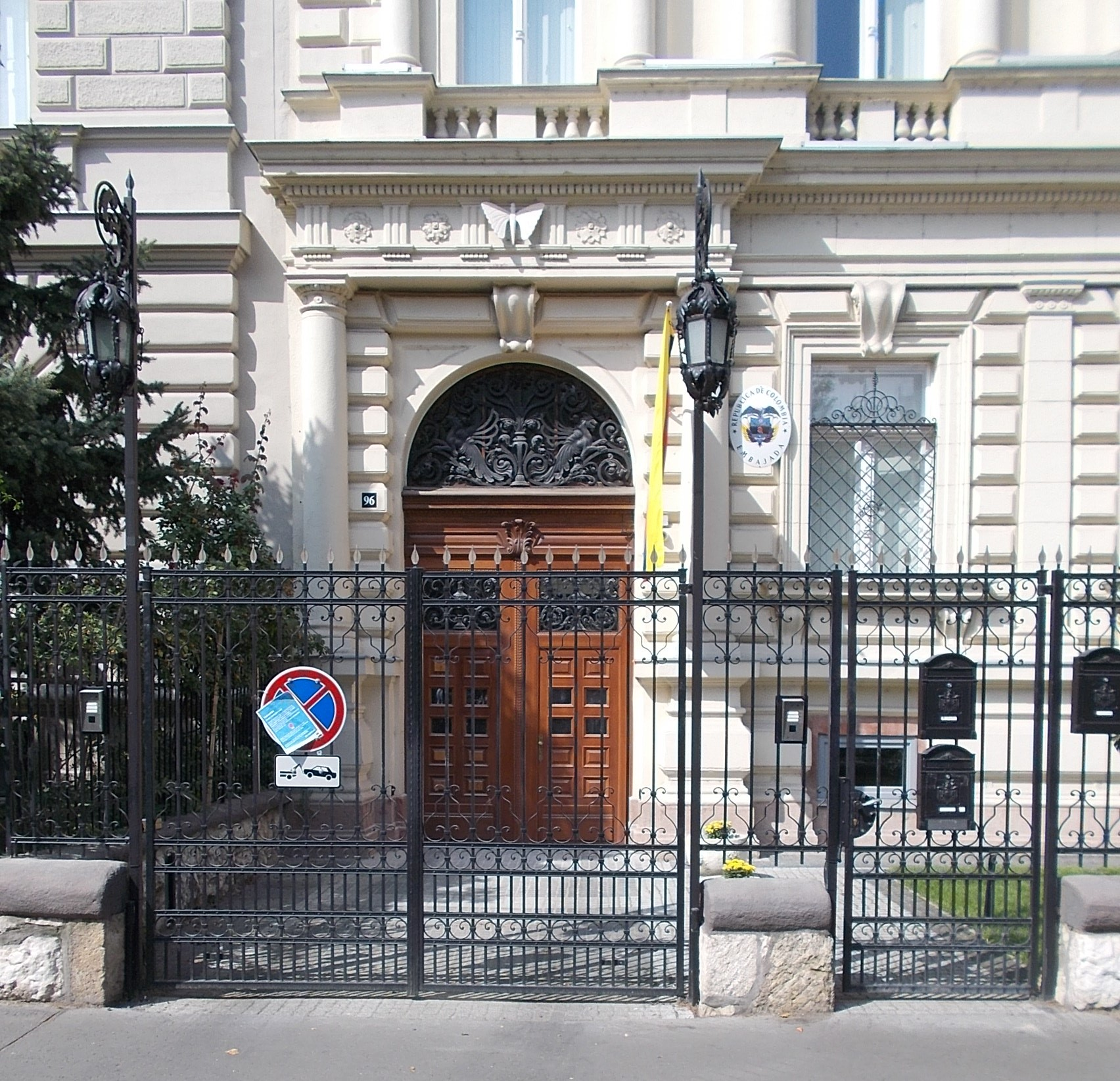 Colombian Embassy. - 96 Andrássy Avenue, 6th district of Budapest.